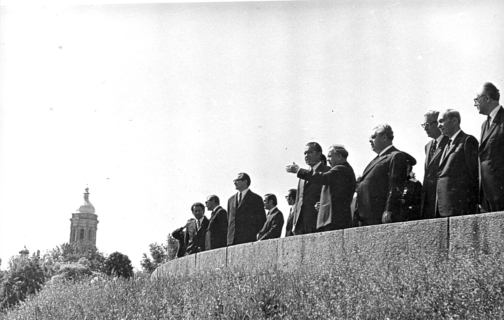 US President Richard Nixon in 1972 at the highest point (200 meters) of the Dnieper slopes (Kiev, Ukraine) .